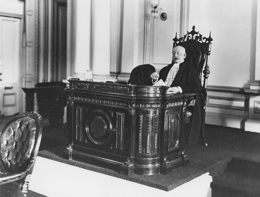 Sir Alfred Cowley speaker of the Queensland Legislative Assembly seated in the speakers chair, circa 1906. The chair is still used by the Speaker today (2014). It was carved by John Petrie.